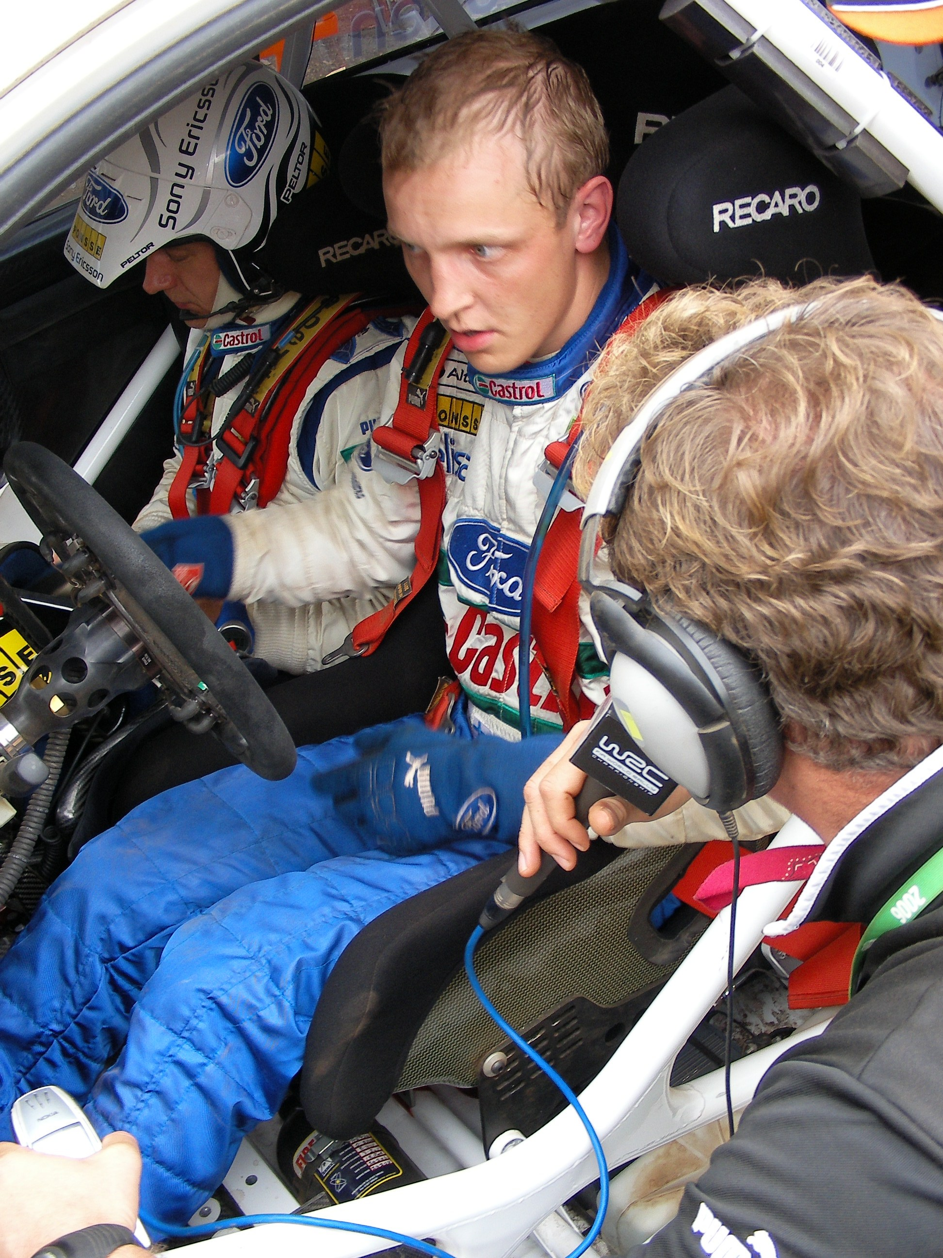 This is a Photo taken by myself at Telstra Rally Australia in October 2006. This photo was taken on leg 3 of the event where Mikko eventually won his first WRC Event of his career.